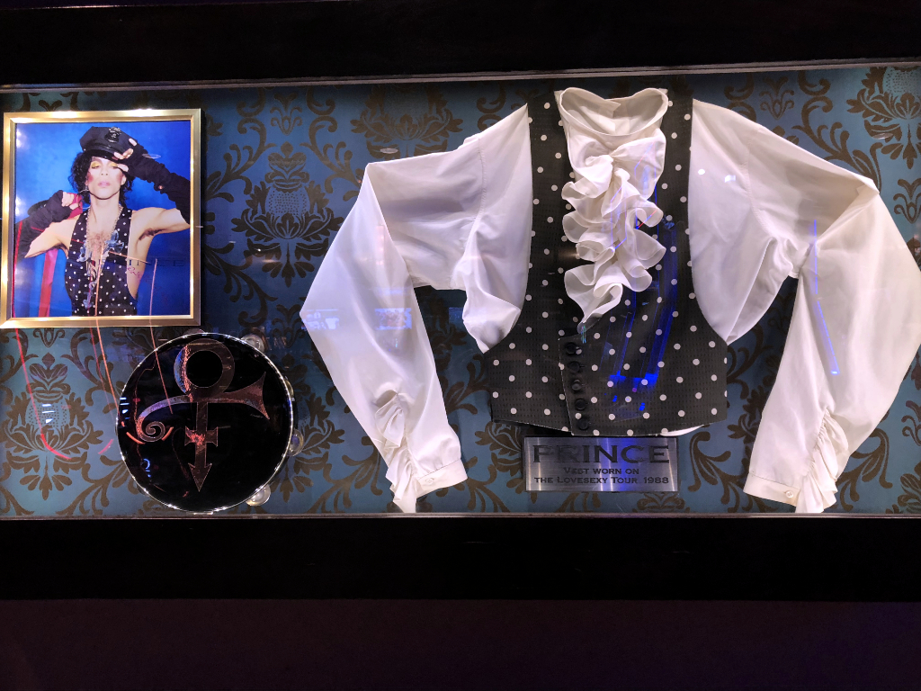 This vest was worn by Prince Rogers Nelson (1958-2016) during his 1988 LoveSexy tour. It is on display at the Hard Rock Hotel & Casino Las Vegas (1995-2020). Prince Las Vegas concert tours: Jam of the Year Tour. October 24, 1997. MGM Grand Garden Arena HI+ n run Tour. December 9, 2000. Aladdin Theater. Live at the Aladdin Las Vegas December 15, 2002 Aladdin Theater. Musicology Live 2004ever. May 29-30, 2004. Mandalay Bay Events Center. Per4ming Live 3121. November 10, 2006 - April 28, 2007. Club 3121 inside the Rio. Live Out Loud Tour. April 26-27, 2013. The Joint at Hard Rock Hotel & Casino.